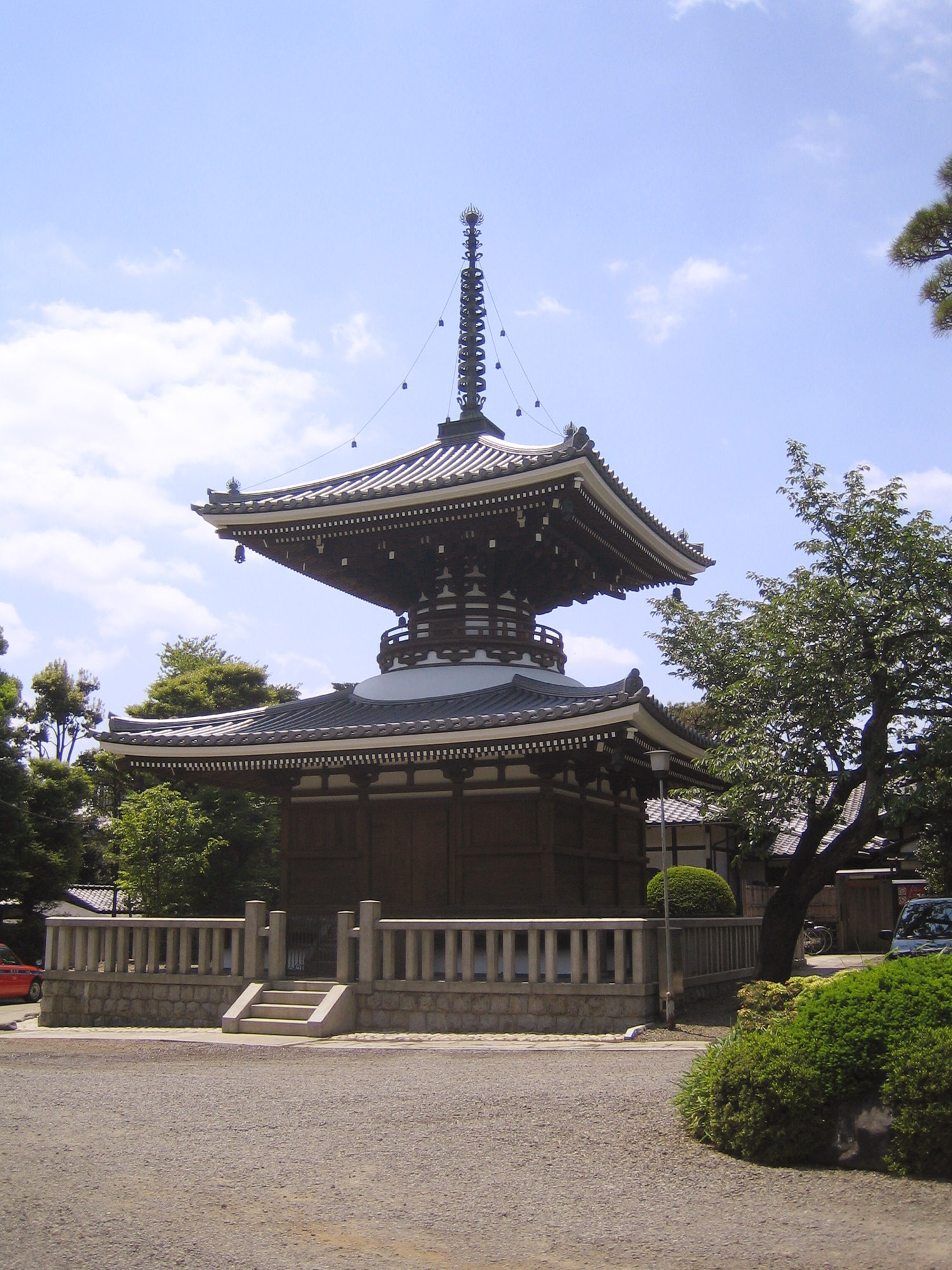 Gokoku-ji (護国寺), in Bunkyo, Tokyo, Japan